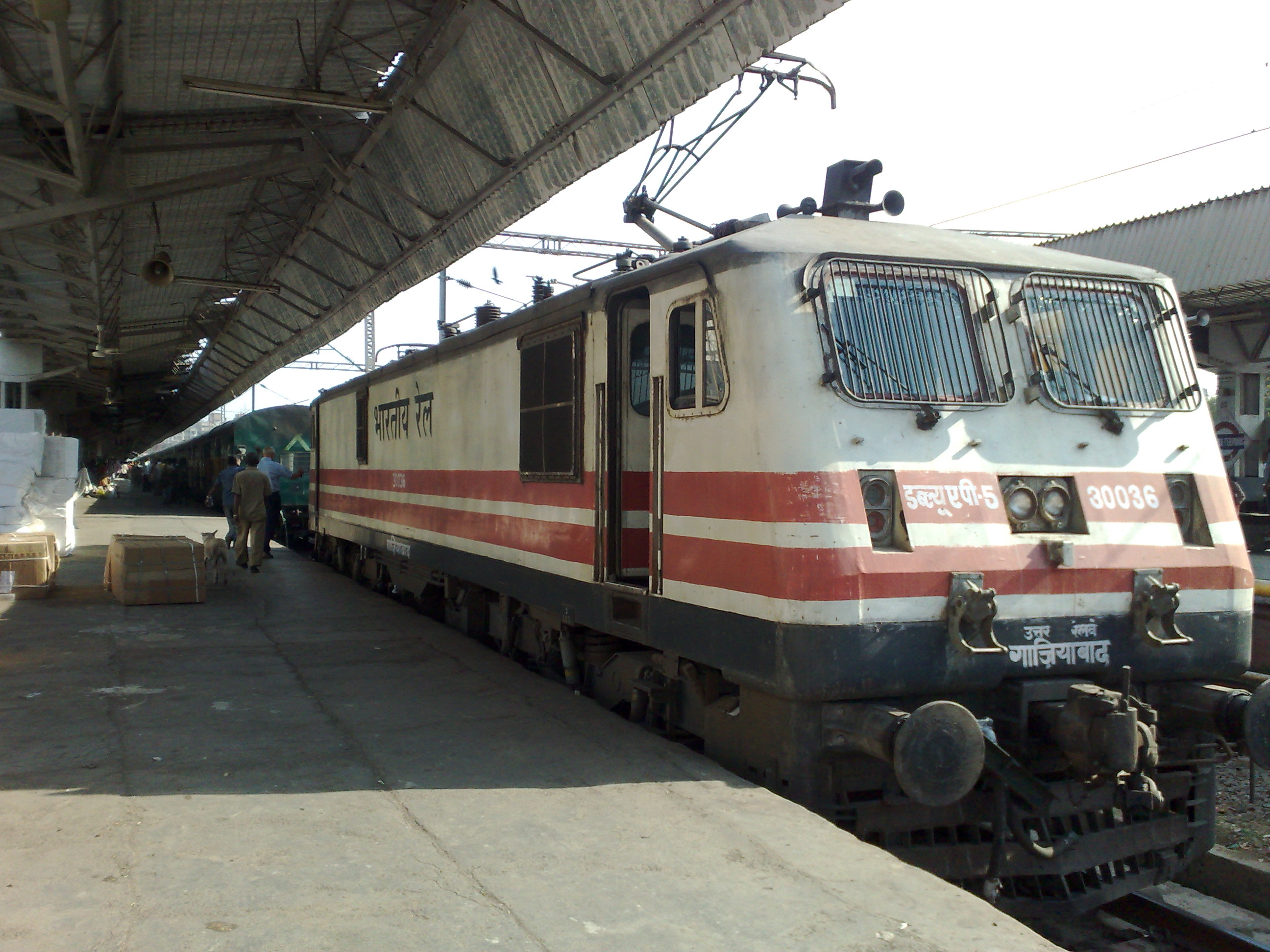 Ghaziabad WAP 5